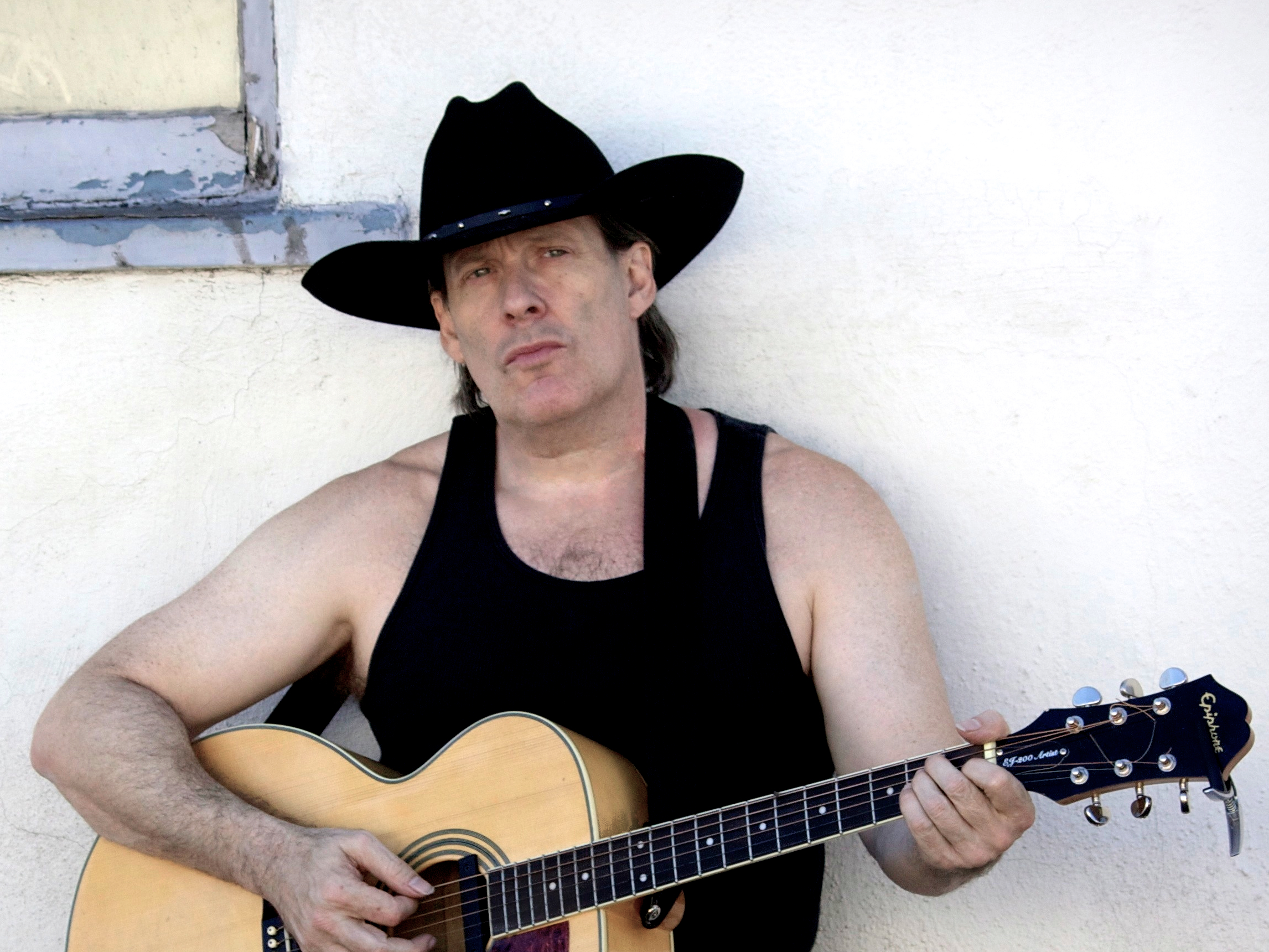 Johnny Angel Wendell in Los Angeles, California.